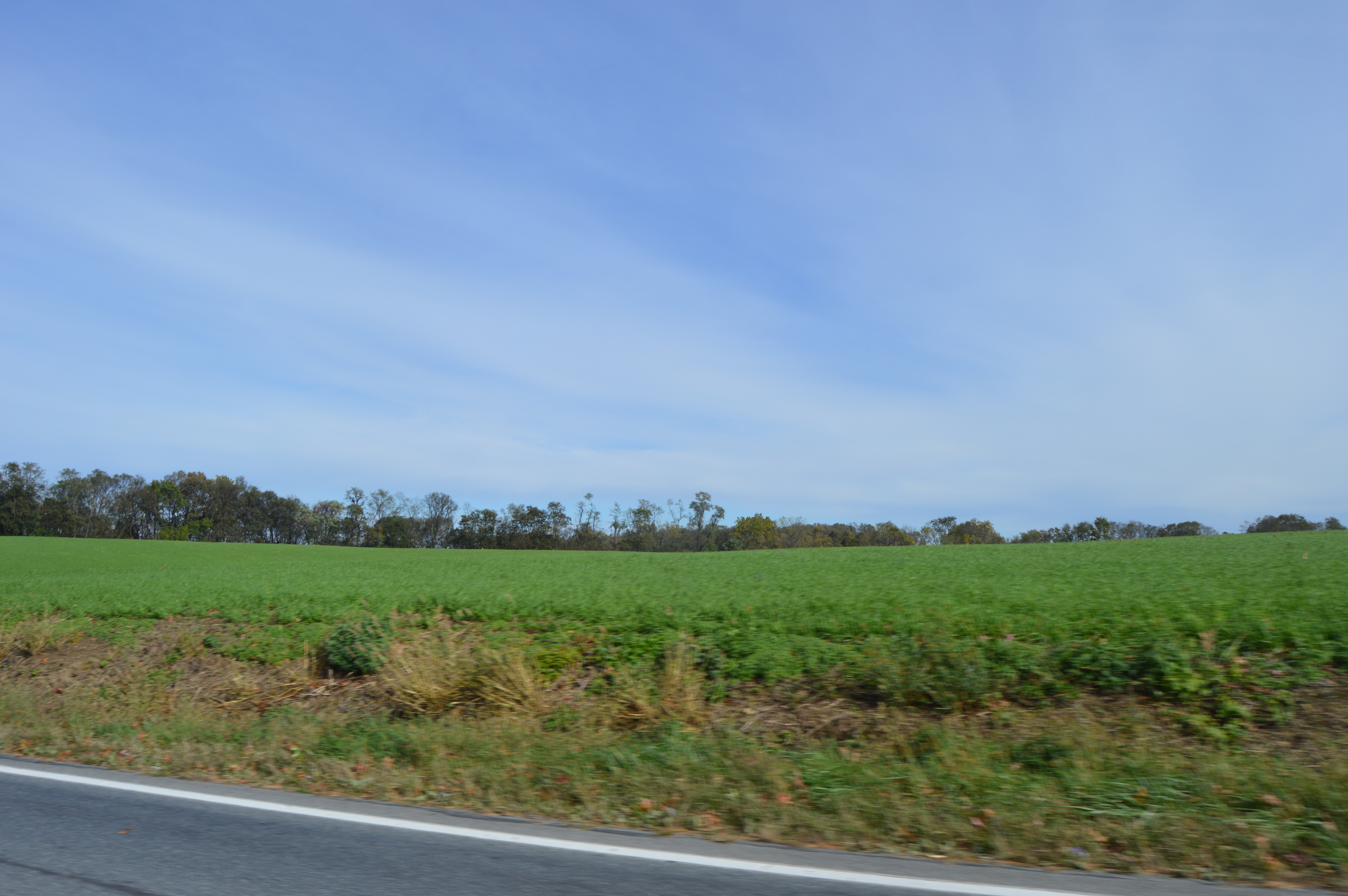 Overview of the Shultz-Funk Site, located east of River Road south of Washington Boro in Manor Township, Lancaster County, Pennsylvania, United States. Once a village of the Conestoga Indians, it is now a significant archaeological site, and it has been listed on the National Register of Historic Places.